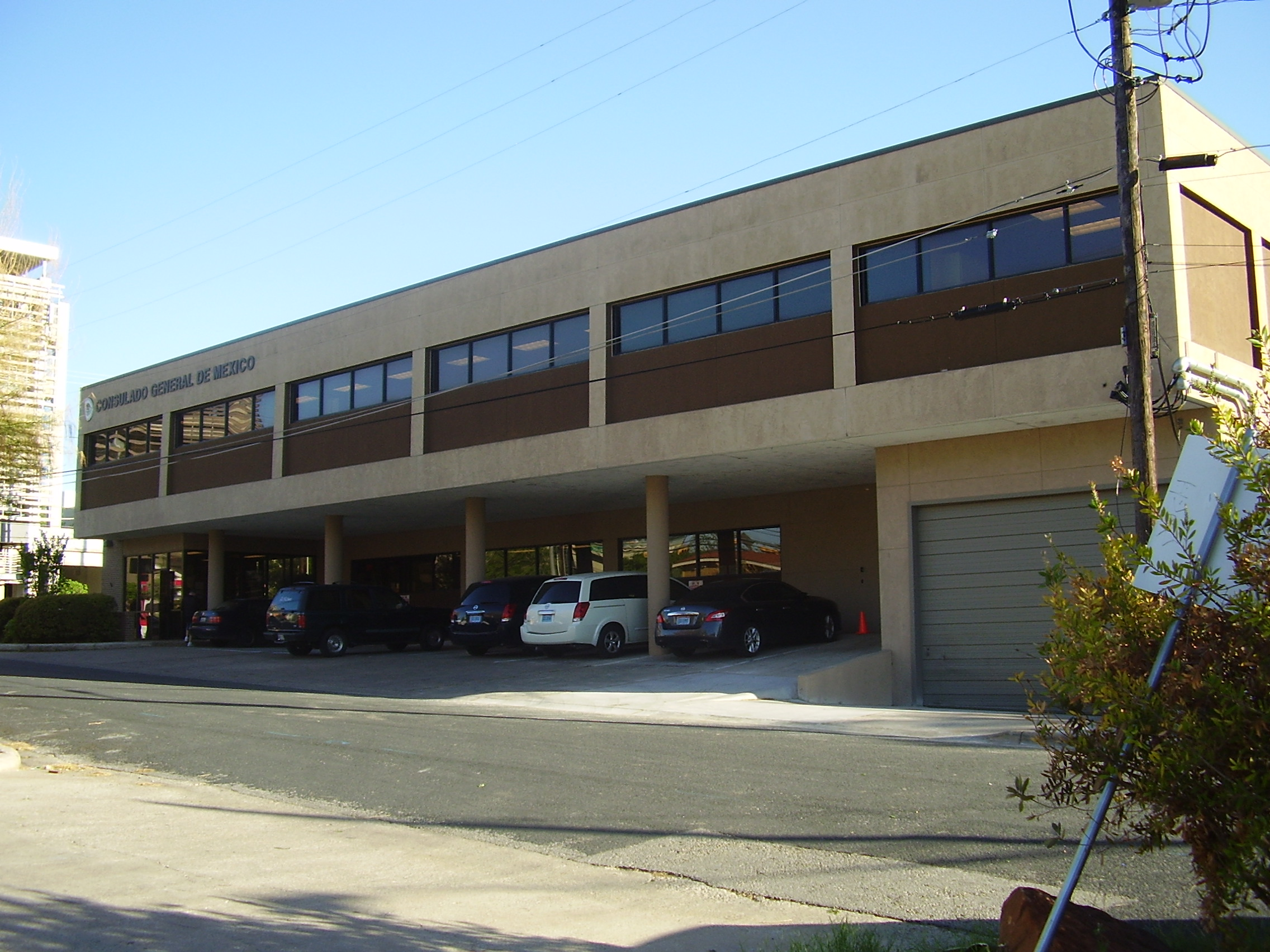 Consulate General of Mexico in Austin - 410 Baylor St Austin, Texas 78703